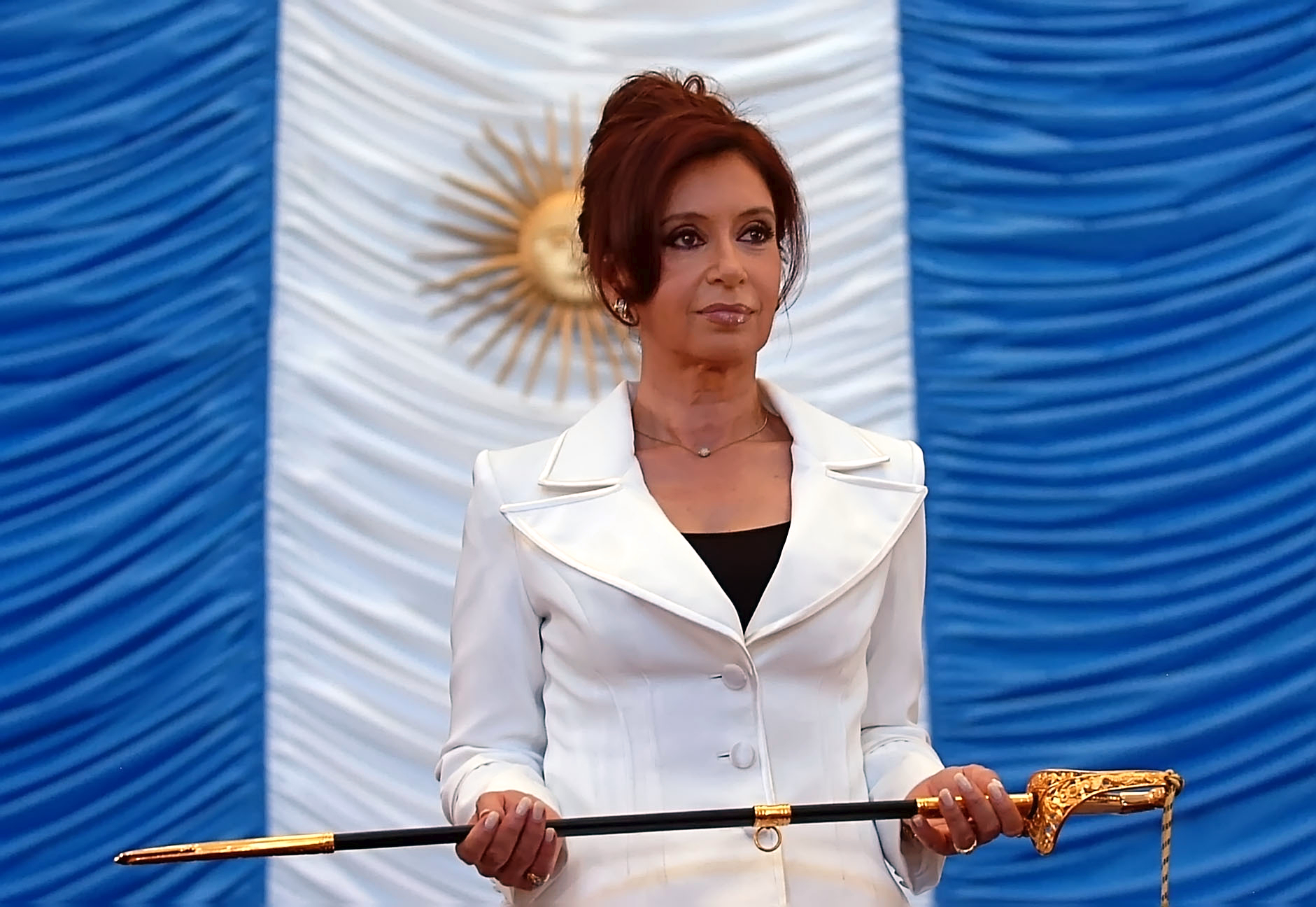 Cristina Fernández de Kirchner, President of Argentina in her role as Commander in Chief of the Armed Forces, carrying a Rechkemmer.